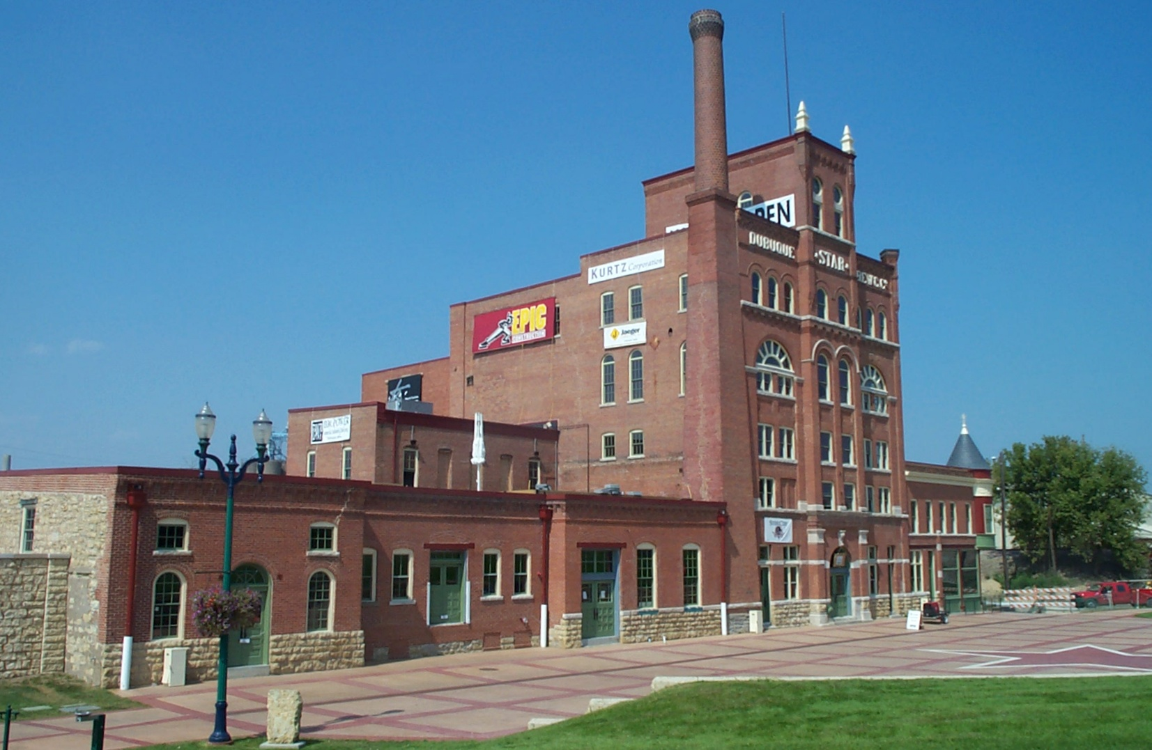 Dubuque_Star_Brewing_Company_Building, Dubuque, Iowa.